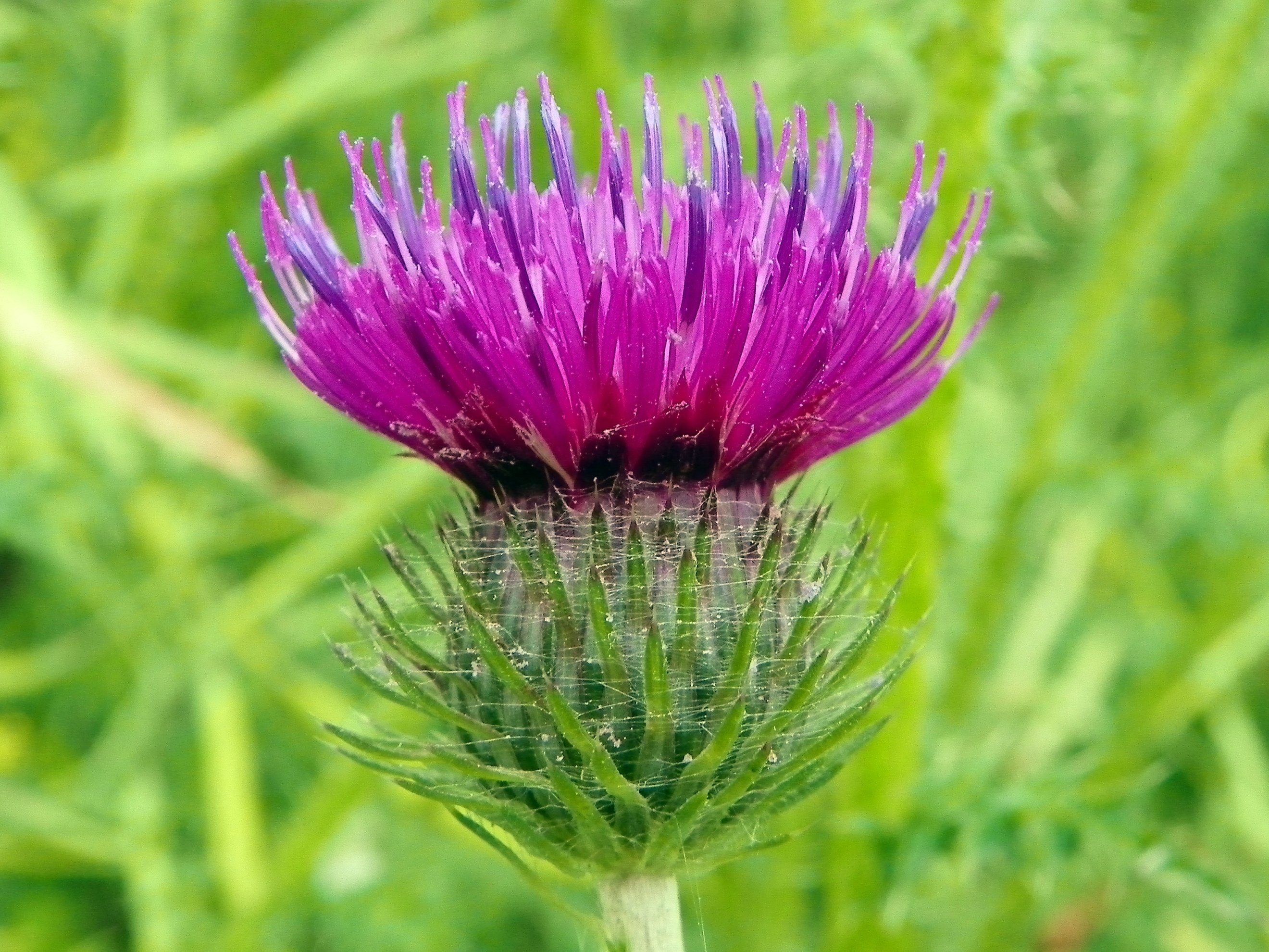 Welted Thistle (Carduus crispus), found in a field on the byway between Hickman's Hill (Clothall) and Walnut Tree Farm (Walkern), Hertfordshire, 2 June 2011.